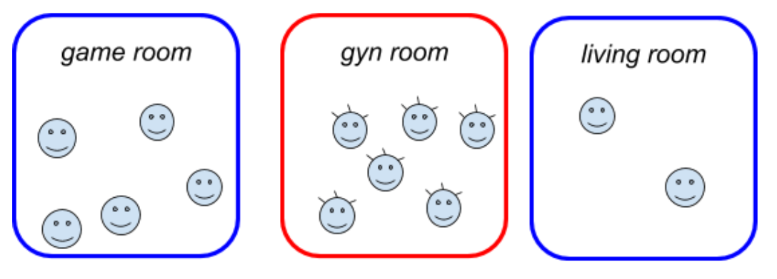 Illustrating concurrent majority, figure-2